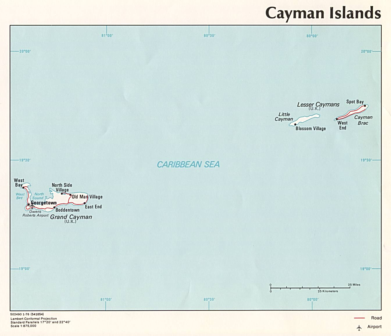 Map of the Cayman Islands